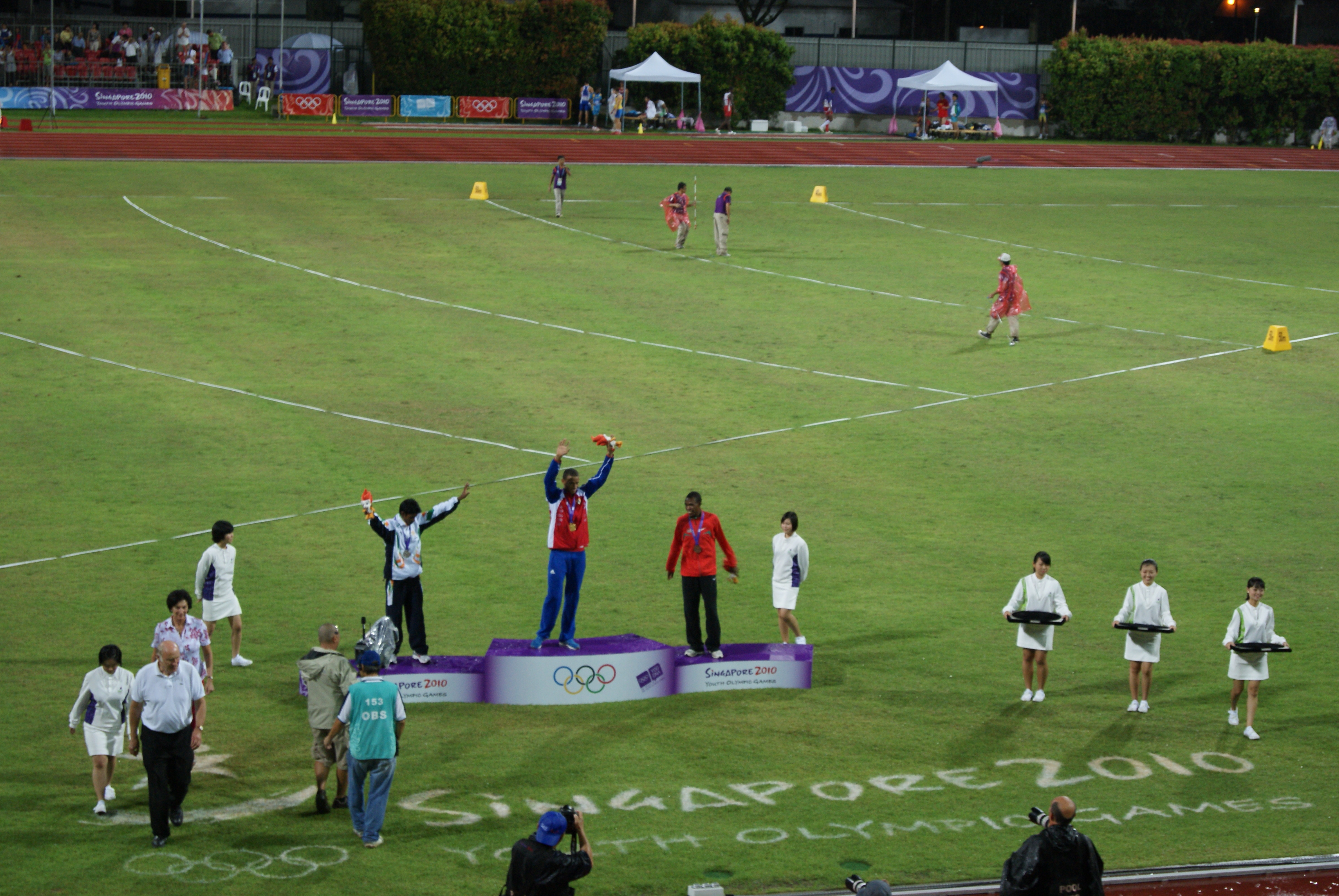 Athletics at the 2010 Summer Youth Olympics, held at Bishan Stadium, Singapore.